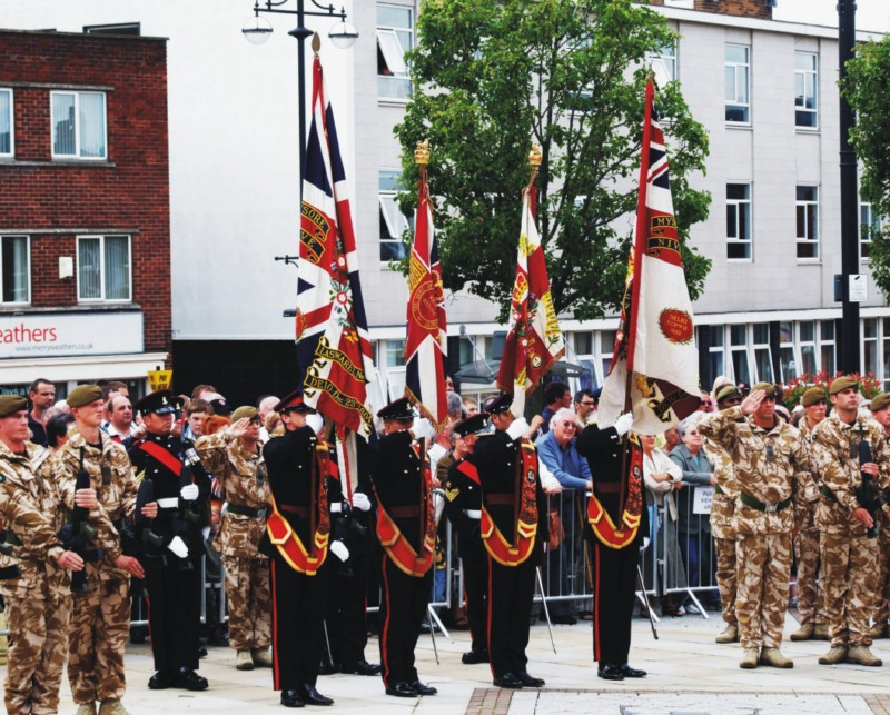 Colours and Guard of the 3rd Battalion Yorkshire Regiment (Duke of Wellington's) outside Rotherham Town Hall, during the bestowing of the Freedom of the Town on the regiment.